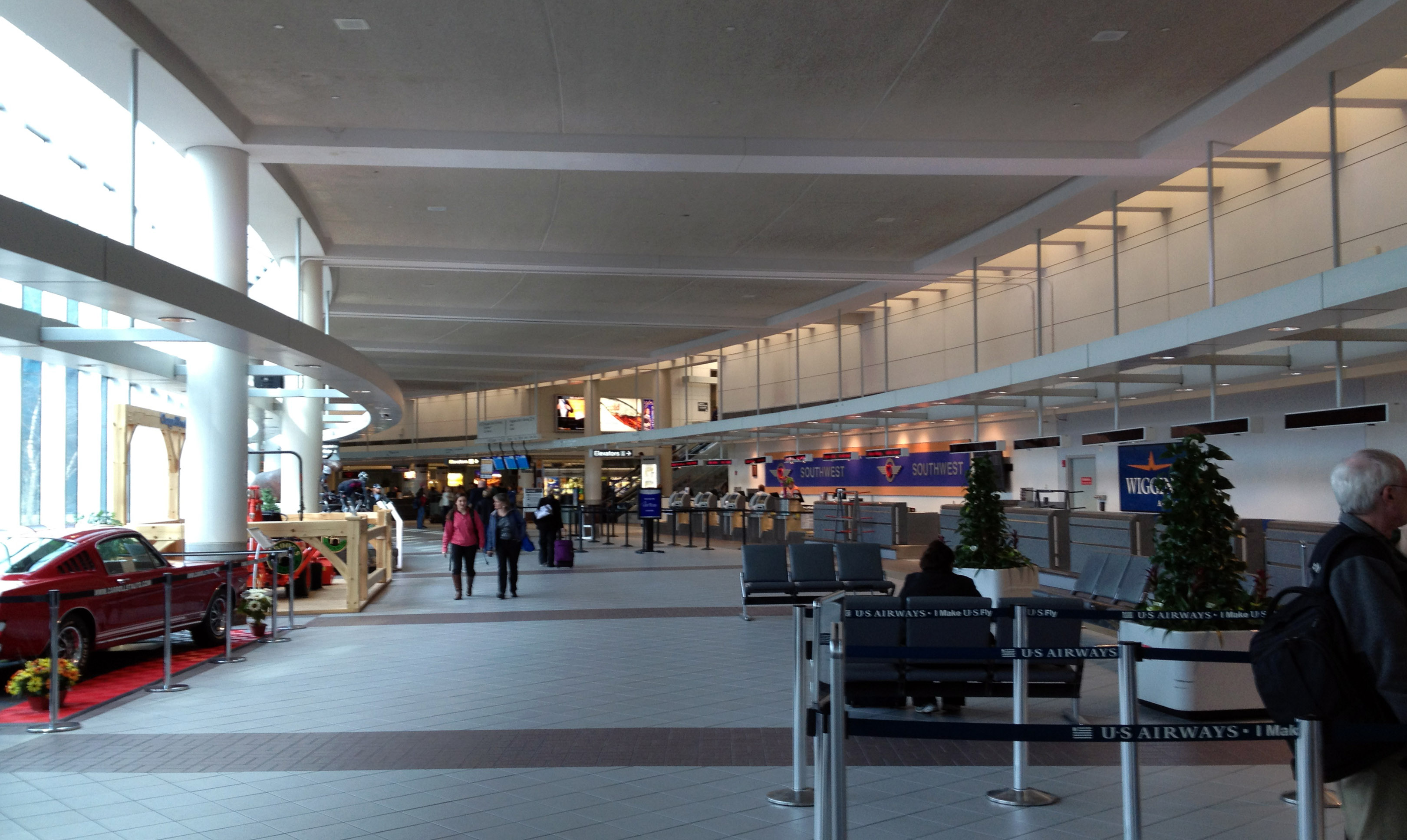 Departure terminal of Manchester-Boston Regional Airport